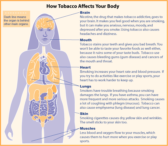 How tobacco affects your body Brain Nicotine, the drug that makes tobacco addictive, goes to your brain. It makes you feel good when you are smoking, but it can make you anxious, nervous, moody and depressed after you smoke. Using tobacco also causes headaches and dizziness. Mouth Tobacco stains your teeth and gives you bad breath. You won't be able to taste your favorite foods as well either, because some of your taste buds are ruined. Tobacco use also causes bleeding gums (gum disease) and cancer. Heart Smoking increases your heart rate and blood pressure. If you try to do activities like exercise or play sports, your heart has to work harder to keep up. Lungs Smokers have trouble breathing because smoking damages the lungs. If you have asthma, you can have more frequent and more serious attacks. Smoking causes a lot of coughing with phlegm (mucous). Tobacco can also increase emphysema (lung disease) and lung cancer. Skin Smoking causes dry, yellow skin and wrinkles. The smell sticks to your skin too. Muscles Less blood and oxygen flow to your muscles, which causes them to hurt more when you exercise or play sports. Content last updated March 28, 2008